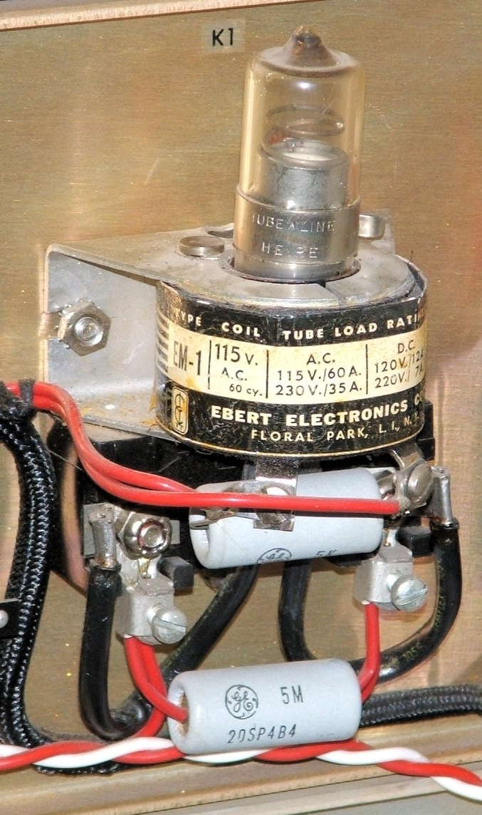 A mercury relay or contactor able to switch 60 Amp 115V AC power. This normally-open contactor is installed in a DEC Type 834 Power Control Panel mounted on the back side of a relay rack-mounted PDP-8 computer built in late 1965. The tubular devices connected across both the coil and the power contacts are thyrectors.